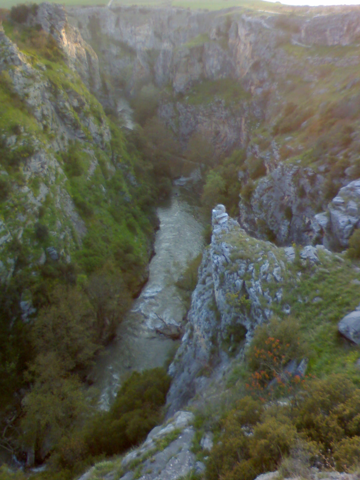 The canyon of river Aggitis at Alistrati Serron, in Greece